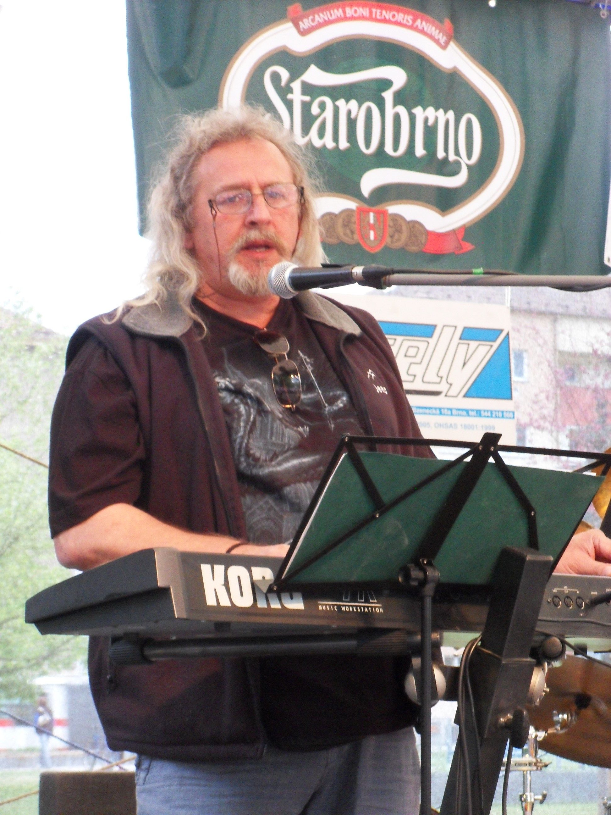 Jan Korbička, keyboardist of Czech rock band Synkopy 61, Brno, Czech Republic